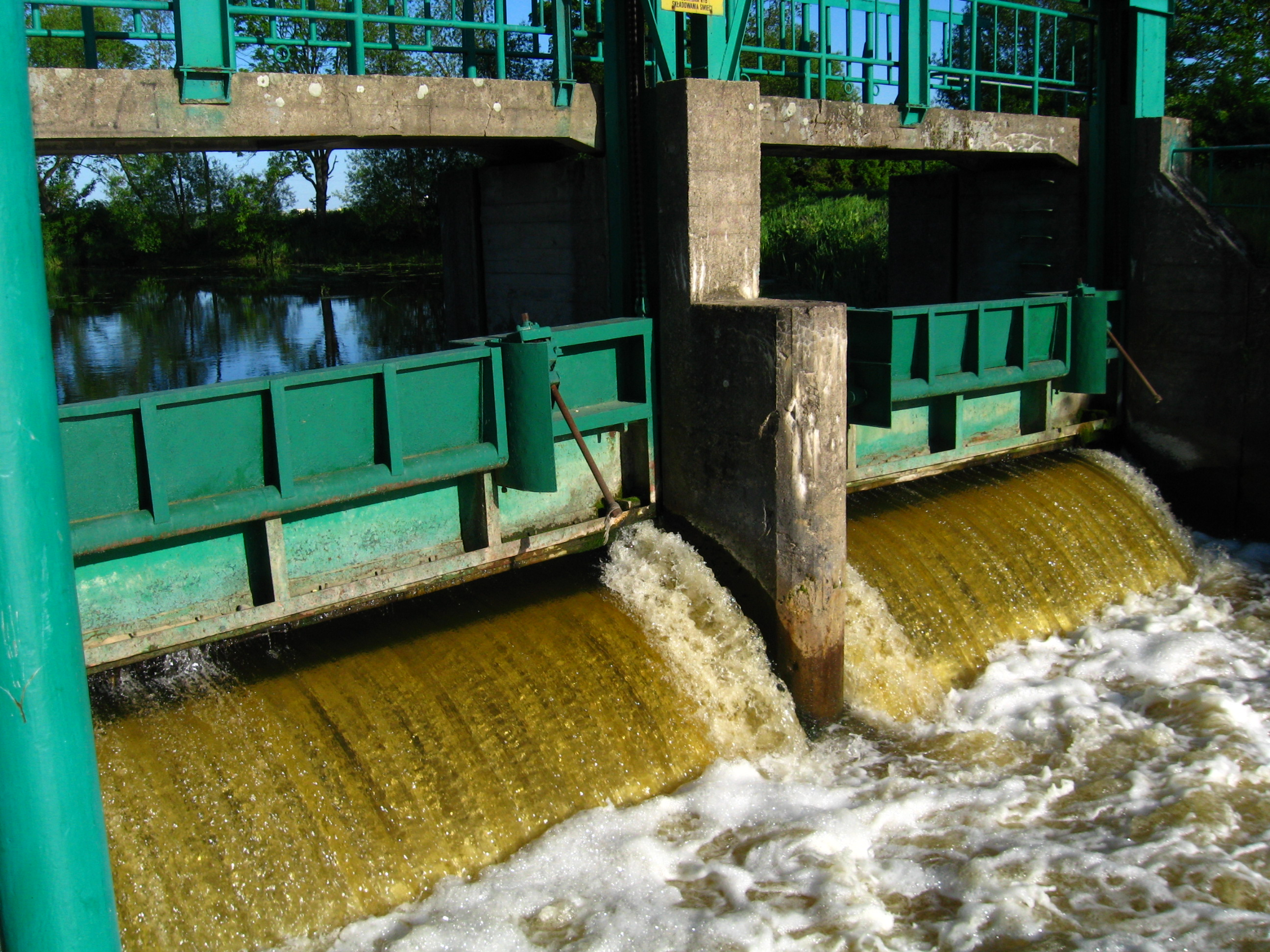 Weir on Supraśl river at Dobrzyniewo Fabryczne